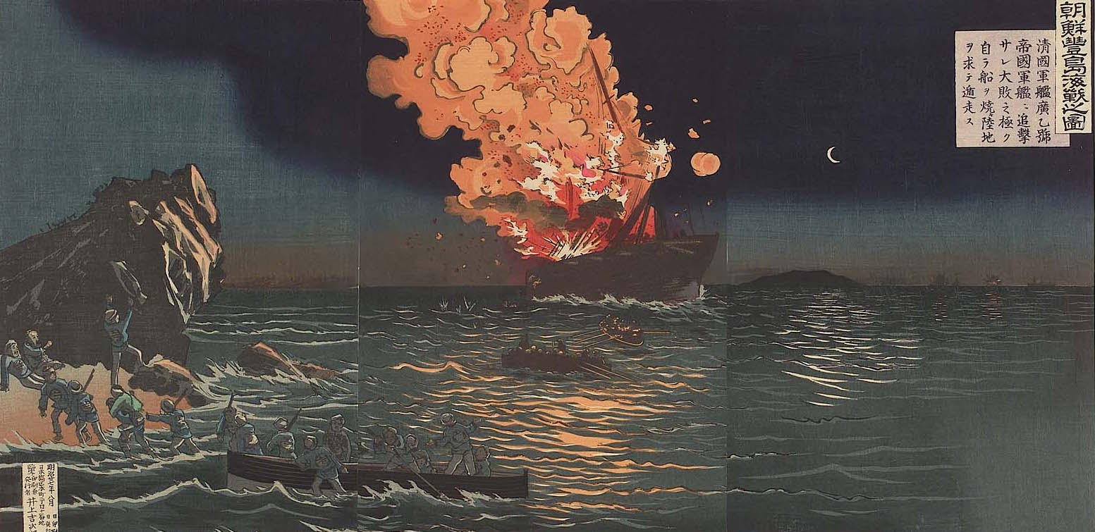 Naval Battle near Phungdo in Korea (Chôsen Hôtô kaisen no zu) in the First Sino-Japanese War